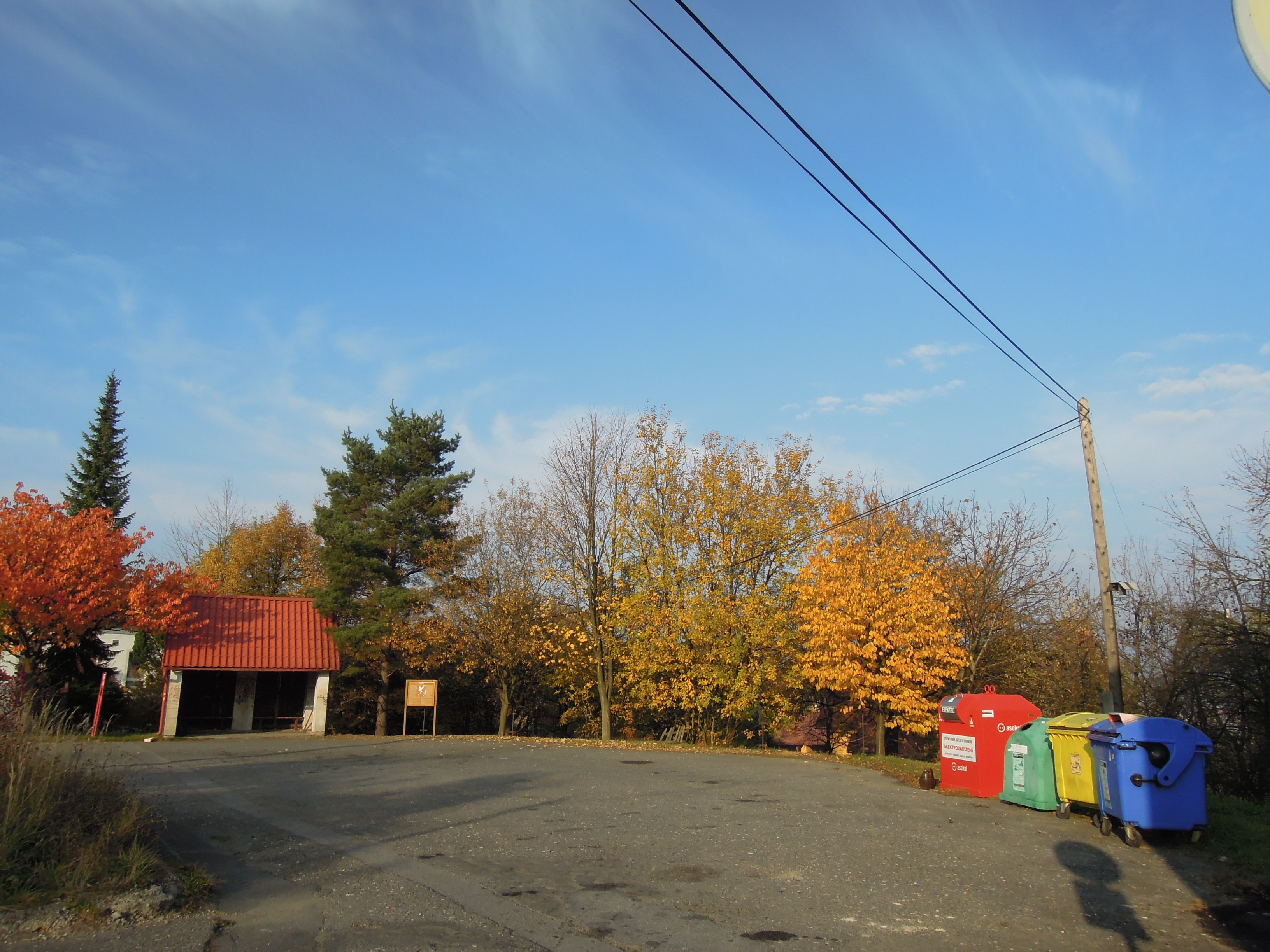 End of municipal public bus line in Juřinka, Vsetín District, Zlín Region, Czech Republic